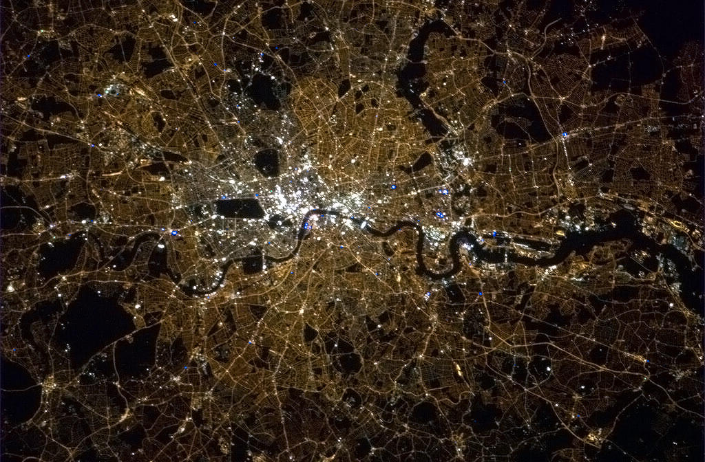 London at night photograped from the ISS